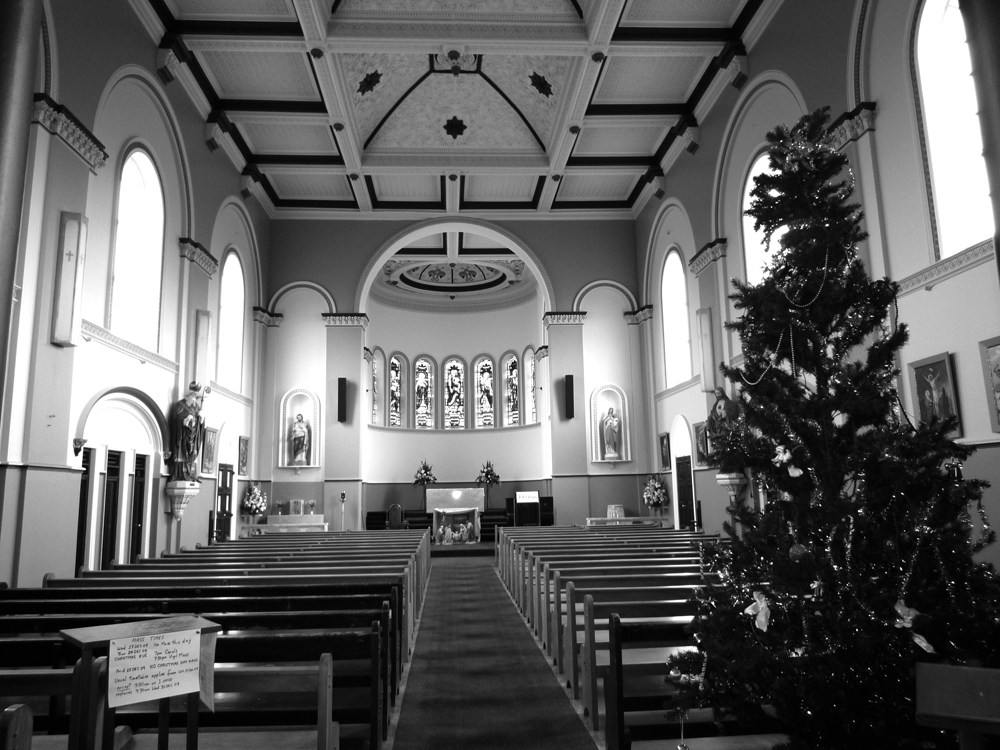 St. Patrick's Catholic Basilica, Waimate, South Canterbury, New Zealand.